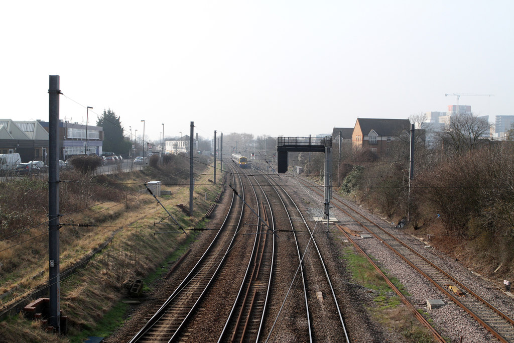 View From Old Oak Common Lane